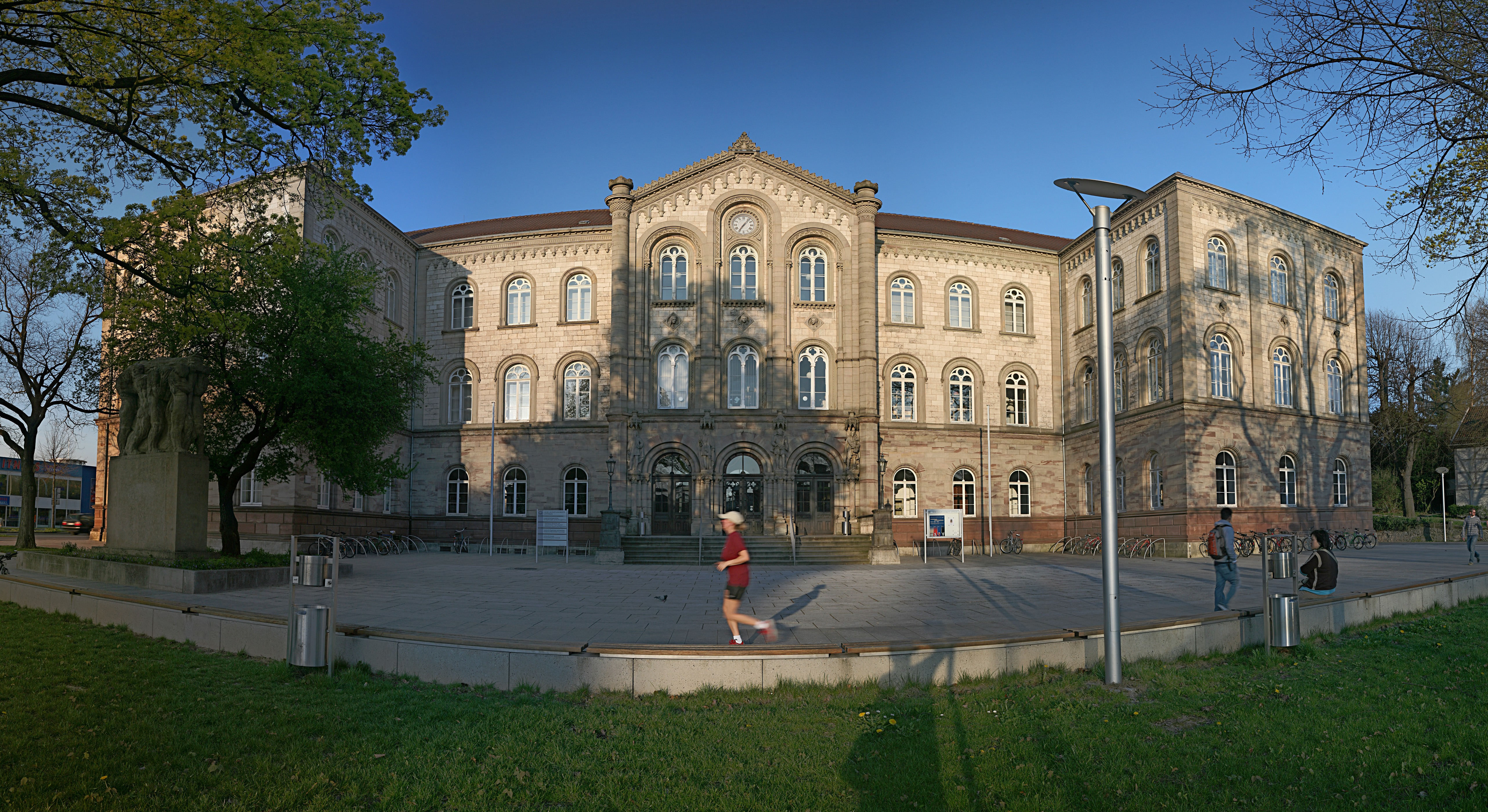 Auditorium University of Göttingen, Germany